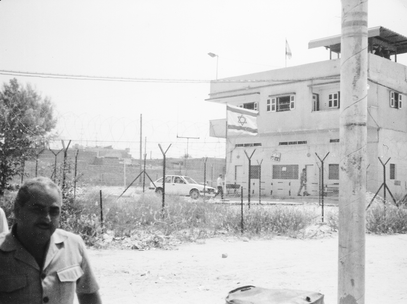 View On Black A picture from my family album, of Israeli-occupied Rafah, shot during our trip in Sinai in 1985.